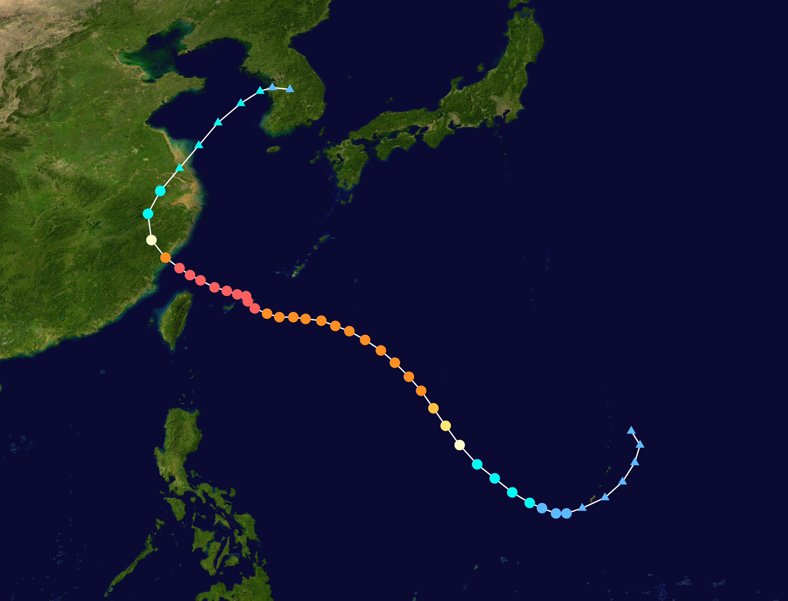 Track map of Typhoon Cora of the 1966 Pacific typhoon season. The points show the location of the storm at 6-hour intervals. The colour represents the storm's maximum sustained wind speeds as classified in the Saffir-Simpson Hurricane Scale (see below), and the shape of the data points represent the nature of the storm, according to the legend below. Saffir–Simpson hurricane wind scale Tropical depression≤38 mph≤62 km/h Category 3111–129 mph178–208 km/h Tropical storm39–73 mph63–118 km/h Category 4130–156 mph209–251 km/h Category 174–95 mph119–153 km/h Category 5≥157 mph≥252 km/h Category 296–110 mph154–177 km/h Unknown Storm typeTropical cycloneSubtropical cycloneExtratropical cyclone / Remnant low / Tropical disturbance